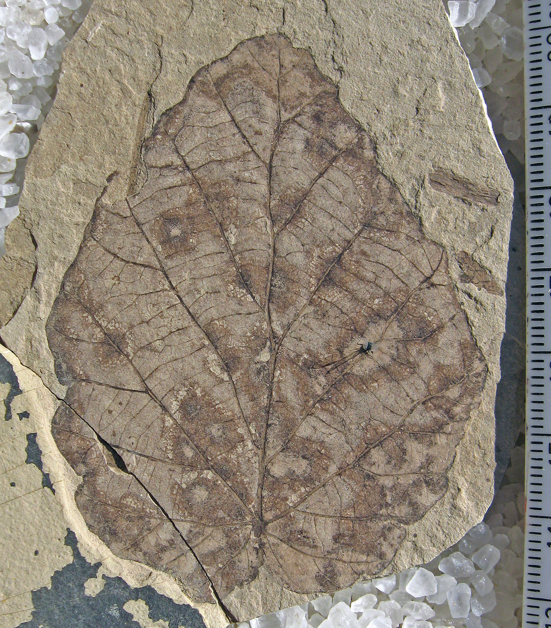 A 7cm tall leaf from the extinct Hamamelidaceae species Fothergilla malloryi.49 million years old, Klondike Mountain Formation, Republic, Washington. Stonerose Interpretive Center Collections# SR . (same specimen as "Fothergilla malloryi without scale 01" but with ruler)